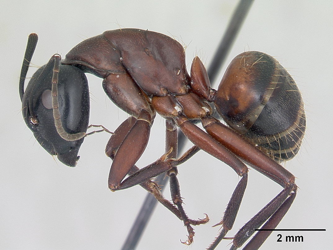 Profile view of ant Camponotus ligniperda specimen casent0173649.